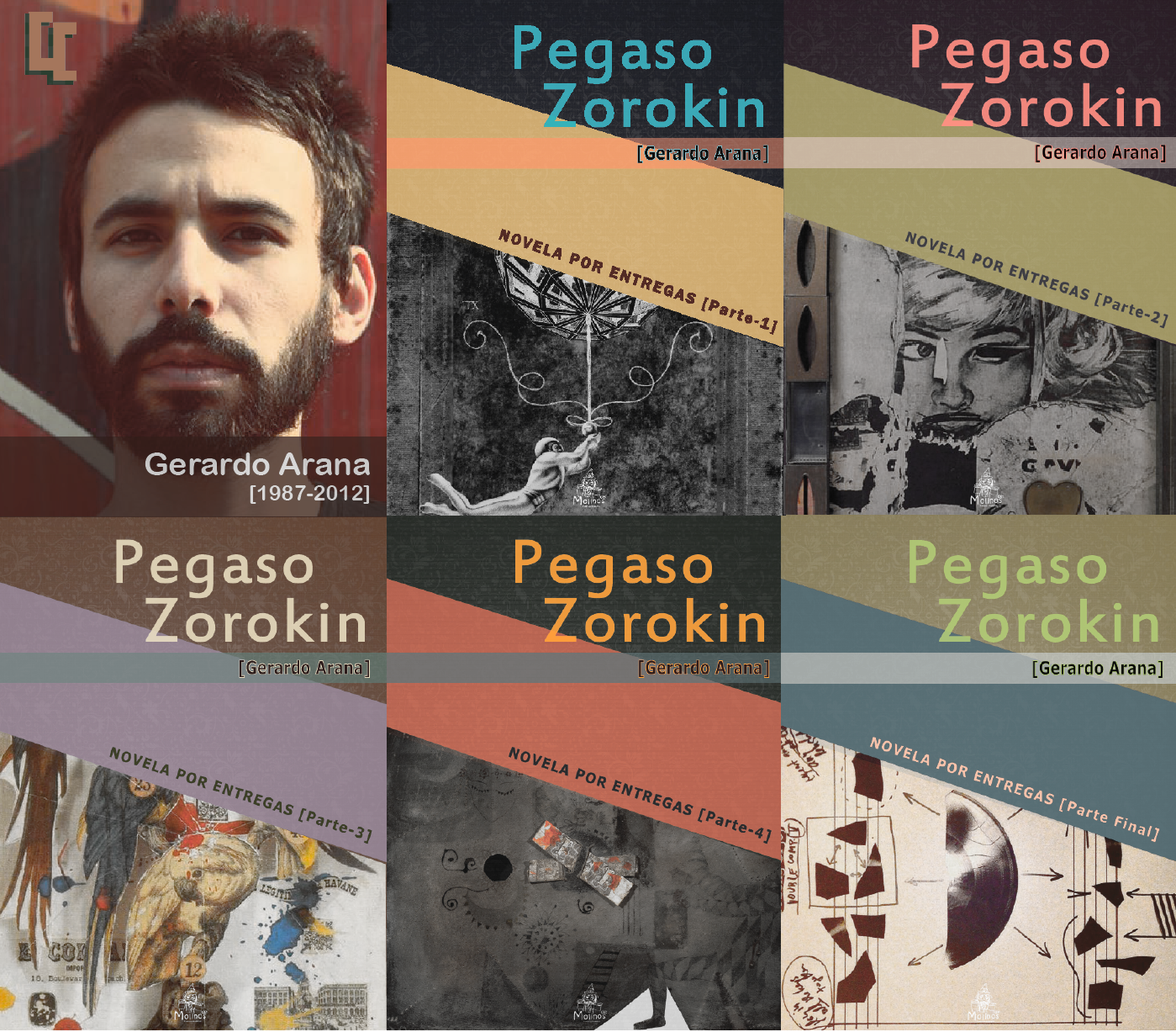 Covers of the novel "Pegaso Zorokin" by Gerardo Arana that was published in Radiador Magazine. Designed by Danile Malpica